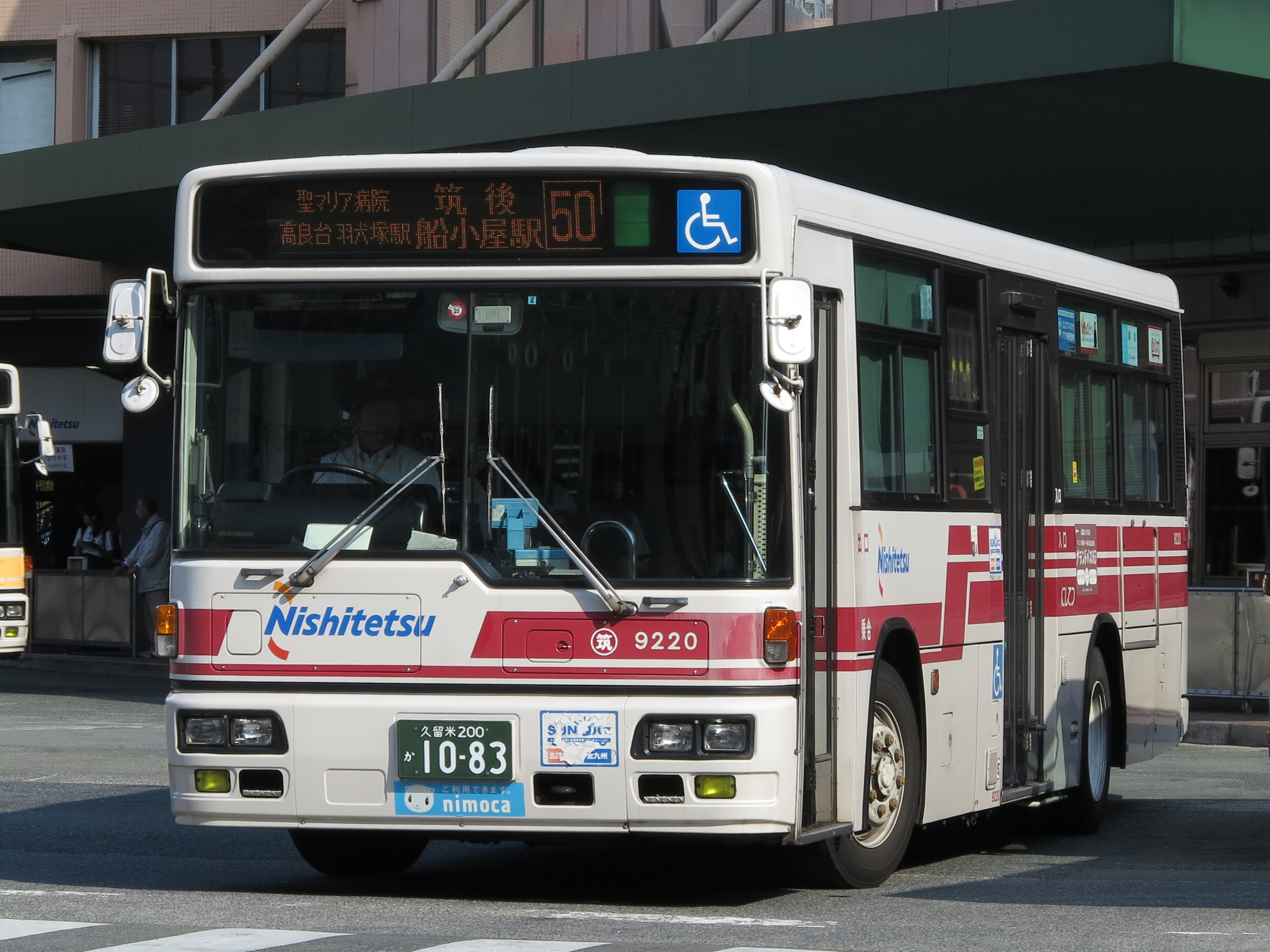 Fleet of Nishitetsu Bus Kurume